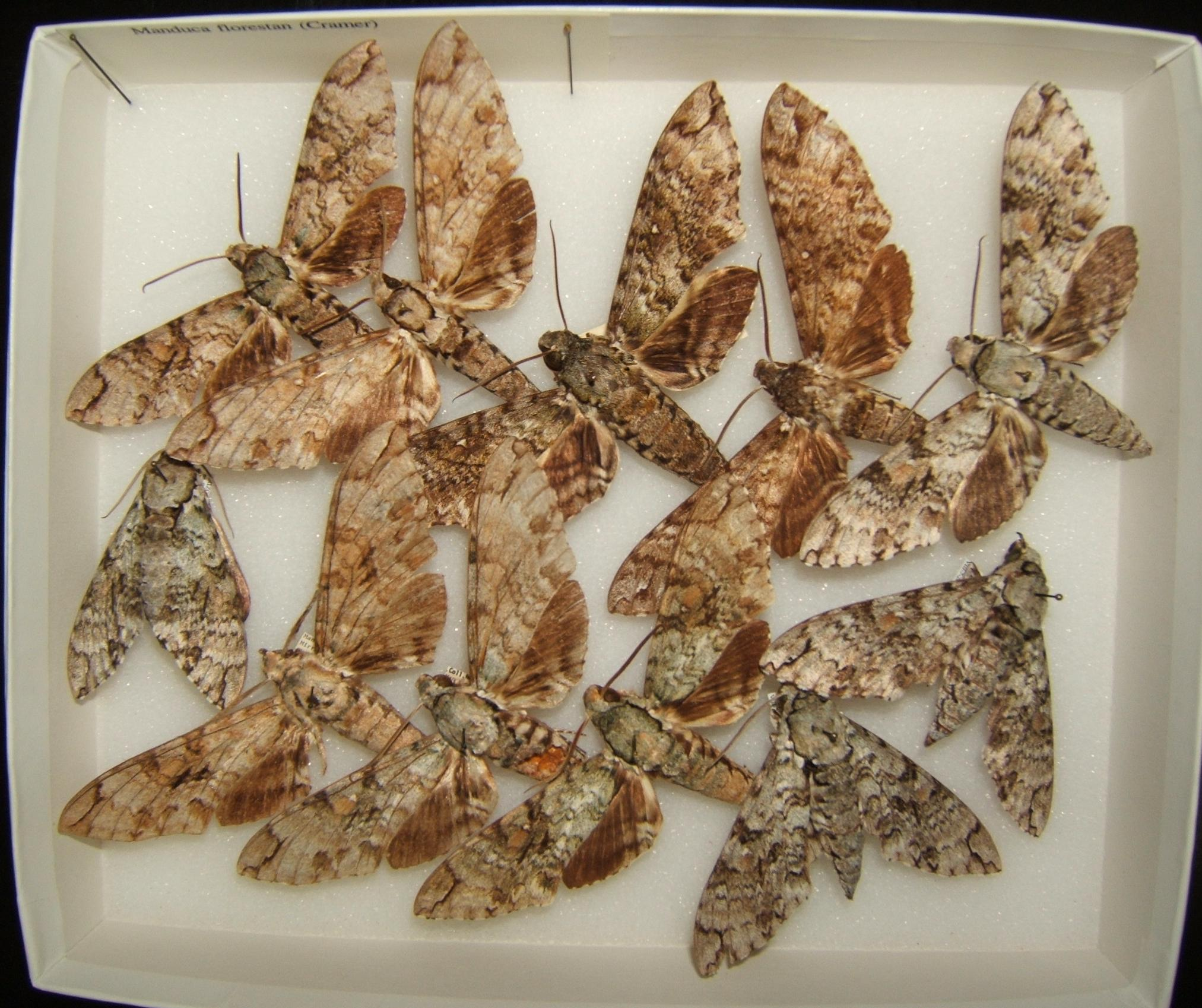 Manduca florestan adult variation taken by Shawn Hanrahan at the Texas A&M University Insect Collection in College Station, Texas.